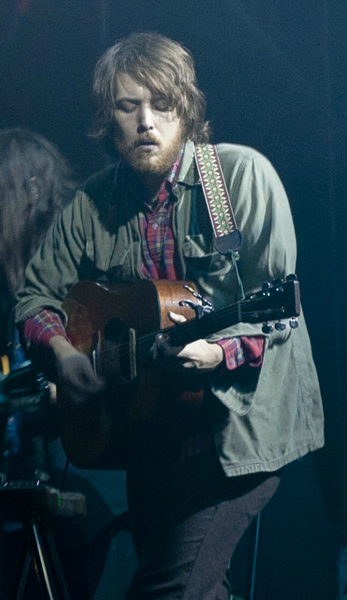 Robin Pecknold performing with Fleet Foxes at Atlantico Live in Rome, Italy on November 17, 2011